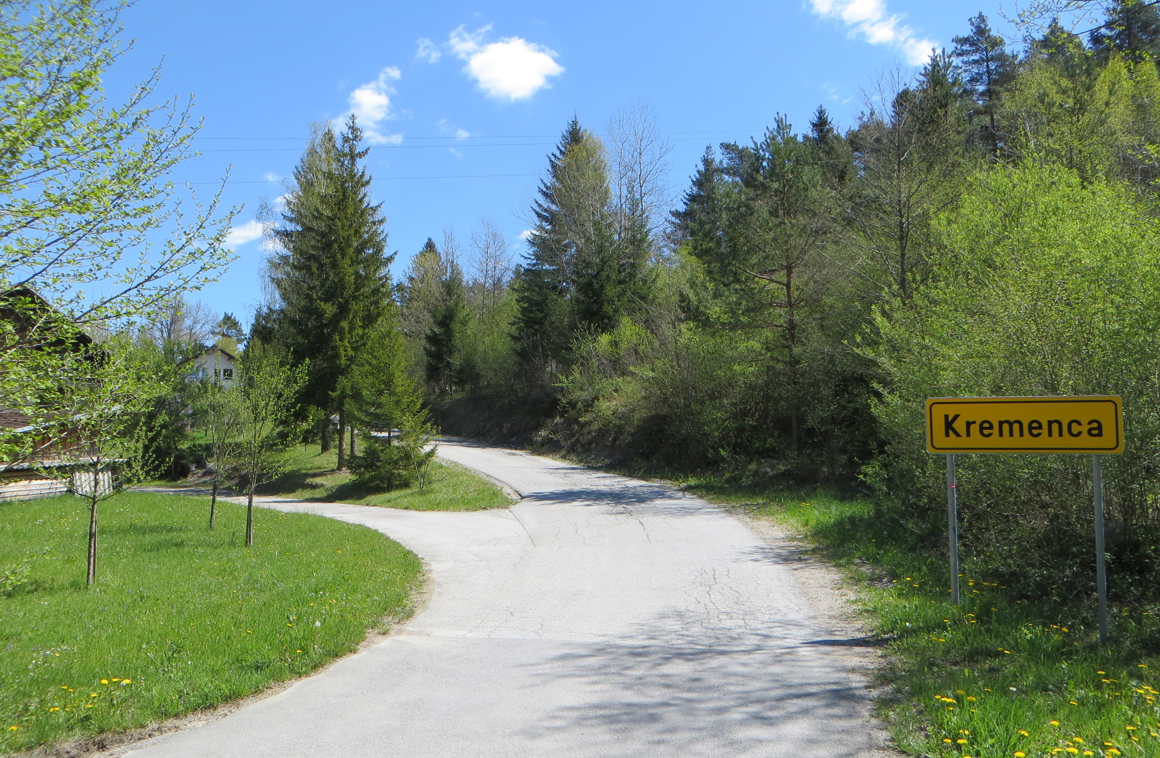 Kremenca, Municipality of Cerknica, Slovenia